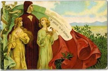 Picture celebrating Italian language with Dante Alighieri and his famous sentence "la dove il sì suona".